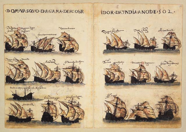 Depiction of the 4th Portuguese India Armada (fleet of Vasco da Gama, 1502) from the Livro de Lisuarte de Abreu (Pierpont Morgan Library, M.525)